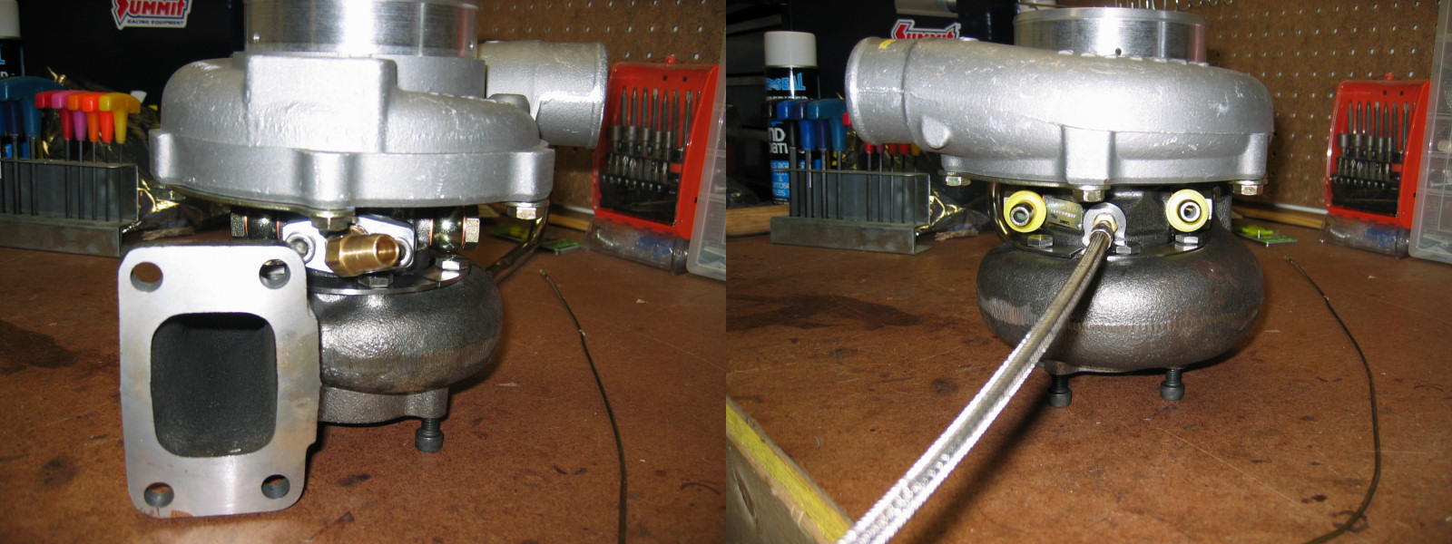 Photo to illustrate connection lines on the CHRA of a turbocharger. This is a Garrett GT30.